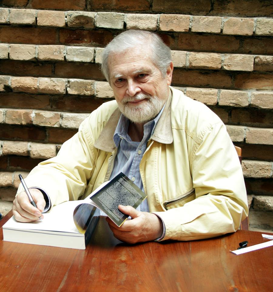 Master of Surrealism, or true savage.